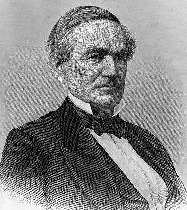 Darwin Phelps, US Representative from Pennsylvania